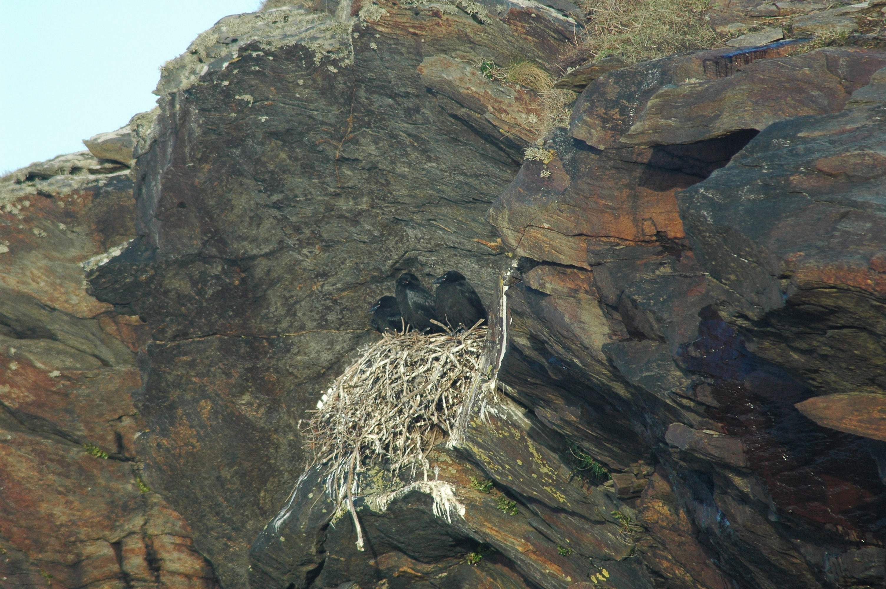 Common Raven chicks on a nest in Rossbeg, County Donegal, Ireland.